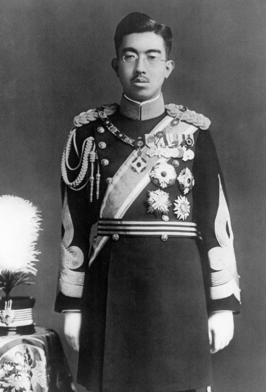 Cropped photograph of Emperor Hirohito in dress uniform.